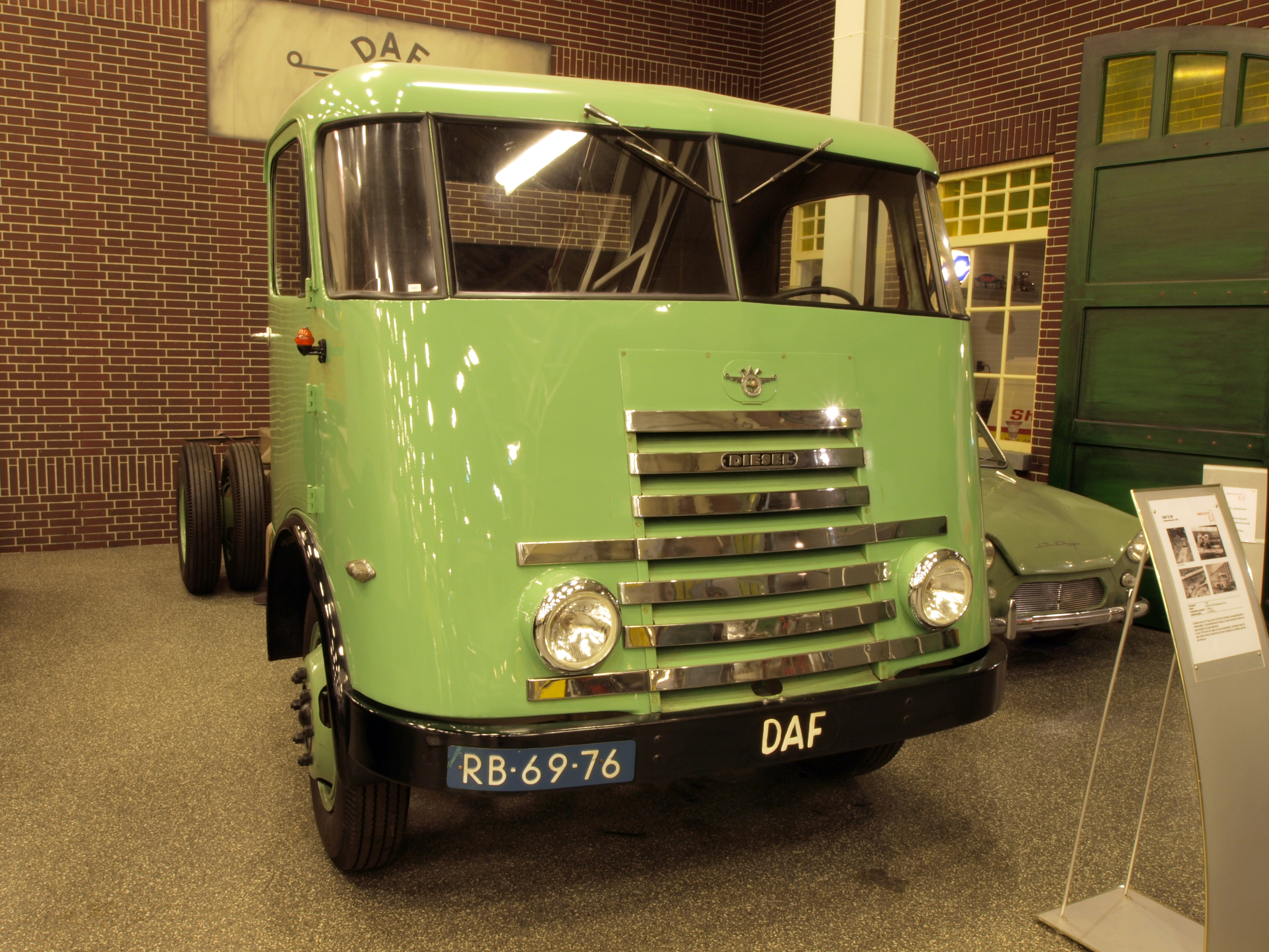 Photographed at the DAF museum.